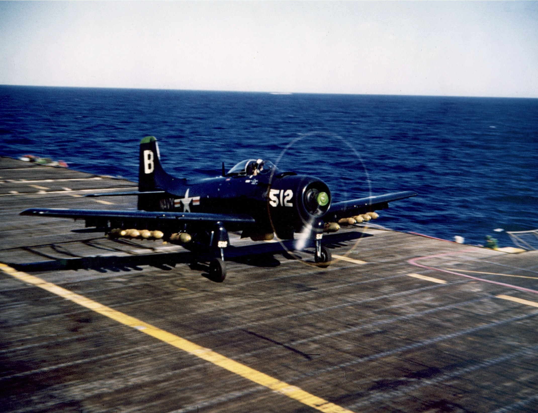 A U.S. Navy Douglas AD-4 Skyraider of attack squadron VA-195 Dambusters taking off the aircraft carrier USS Princeton (CV-37) during the Korean War. VA-195 was assigned to Carrier Air Group 19 (CVG-19) and made two deployments to Korea aboard the Princeton, from 9 November 1950 to 29 May 1951, and from 21 March to 3 November 1952.